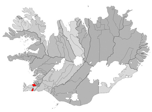 Based on Municipalities of Iceland.png.